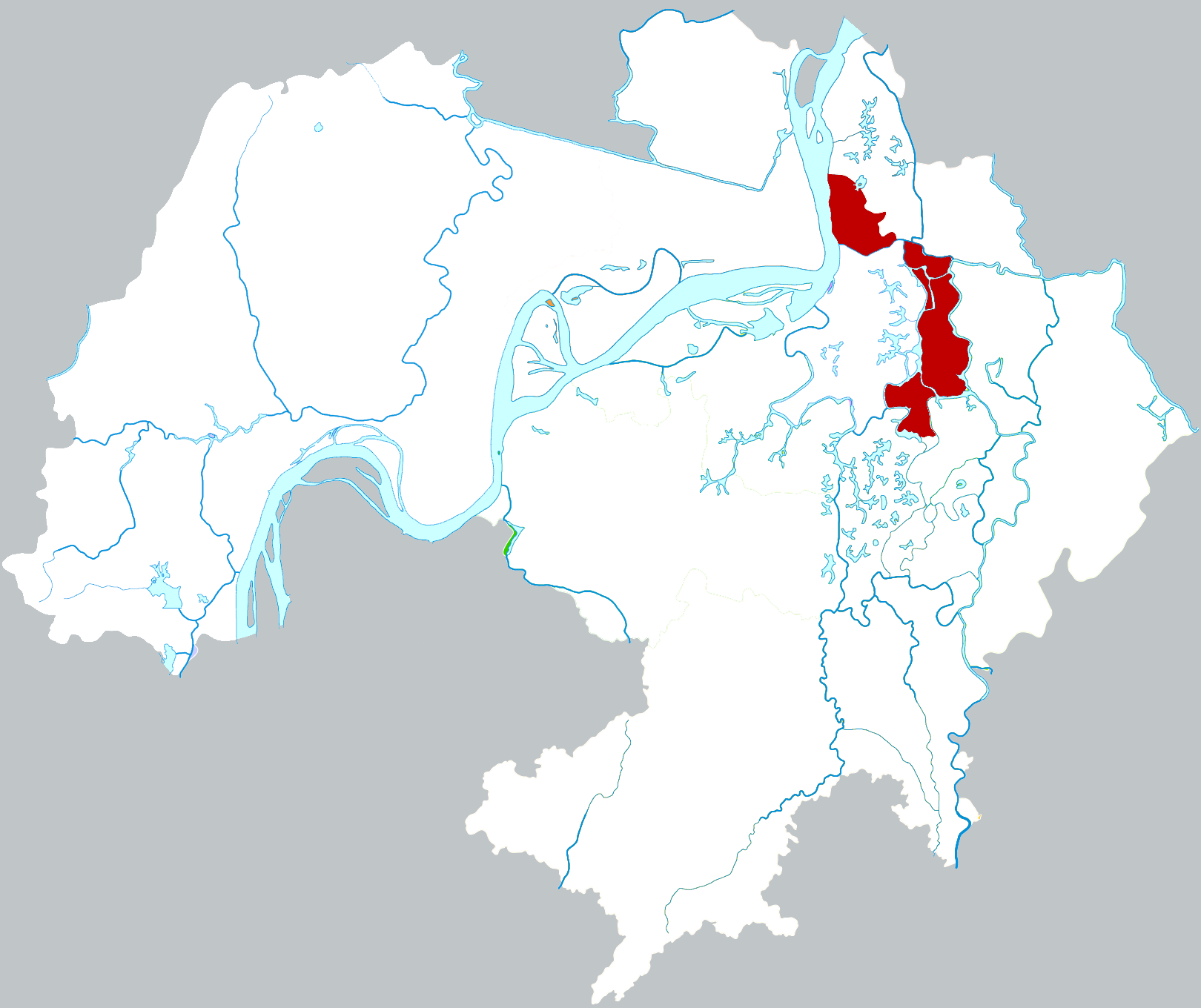 Location of Jinghu district in Wuhu city, China